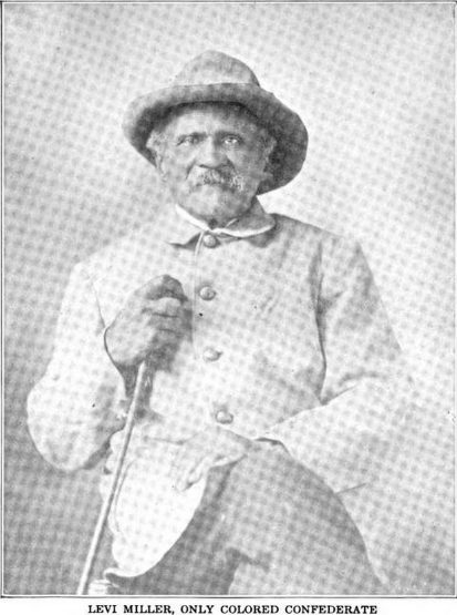 Levi Miller photo from 1918